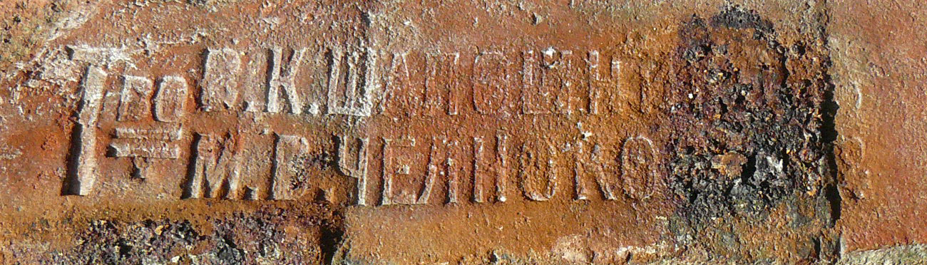 Stamp on a brick of Shaposhnikov & Chelnokov Co